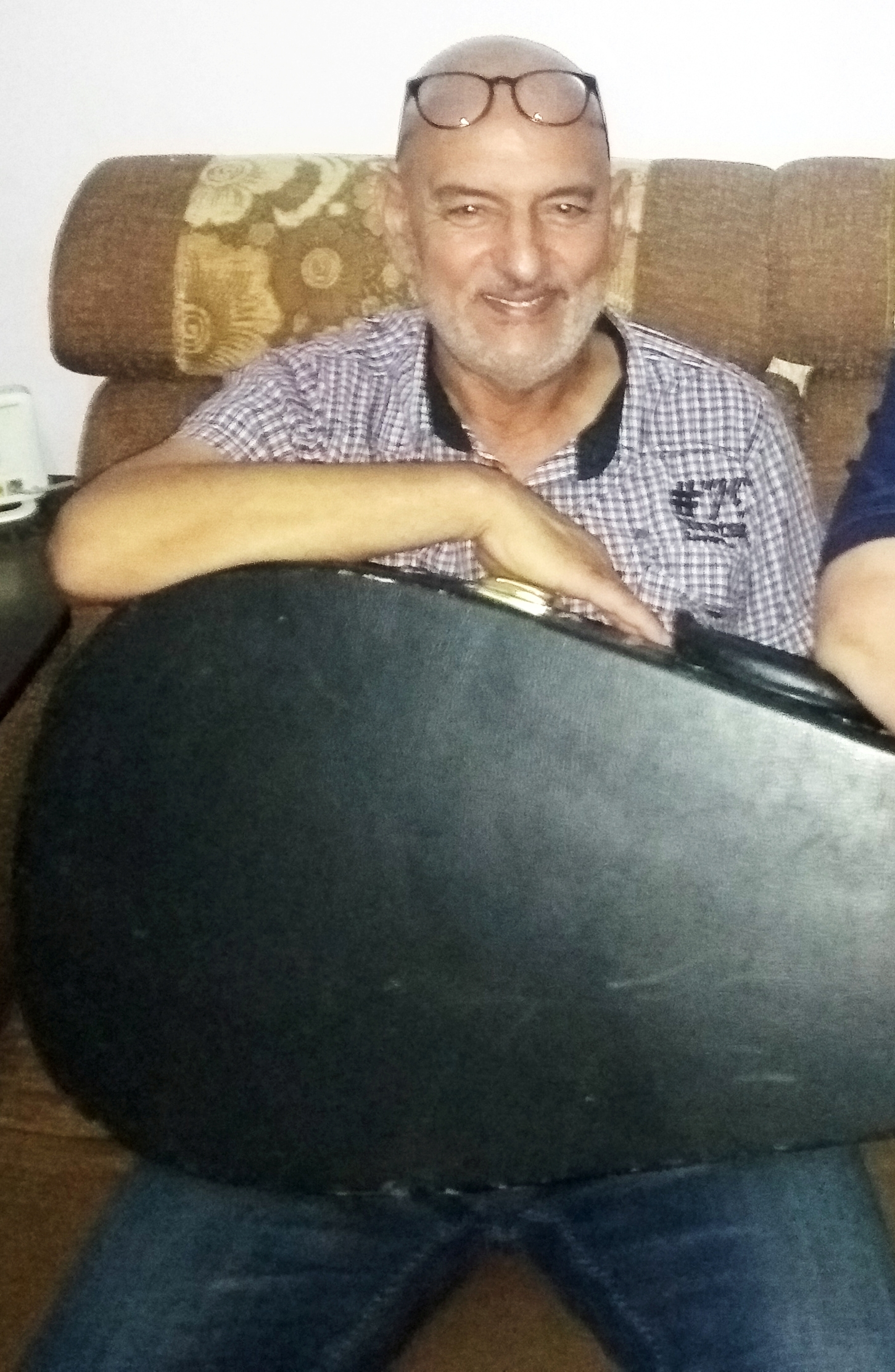 Backstage at a concert in Tala Athmane, september 20, 2018